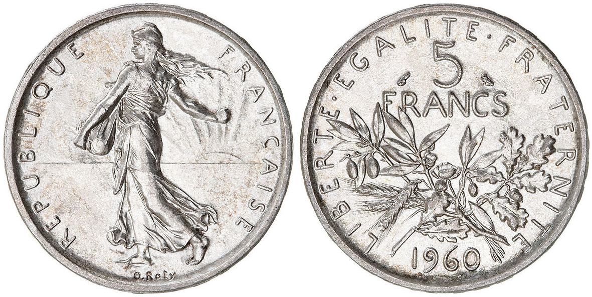 France, coin 5 francs, 1960 - Fifth Republic. Silver.